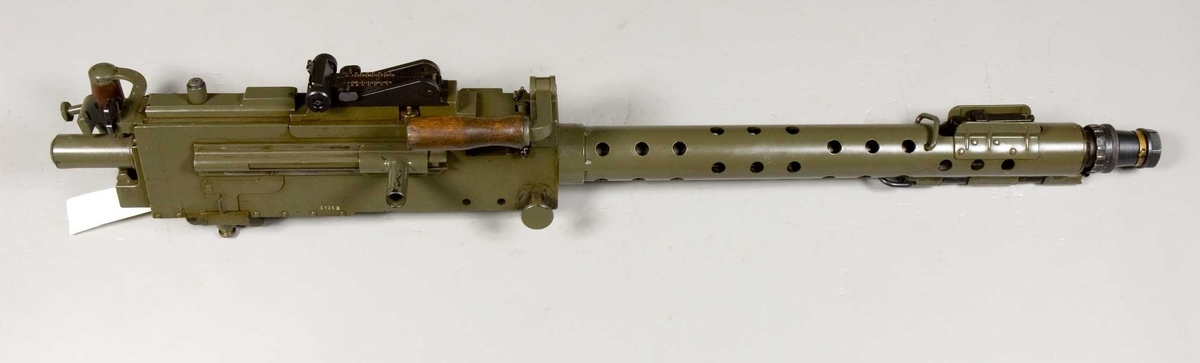 The Kulspruta m/42 (Ksp m/42) machine gun, is a Swedish derivative of the M1919 Browning machine gun. Photo from the Swedish Army Museum collections.